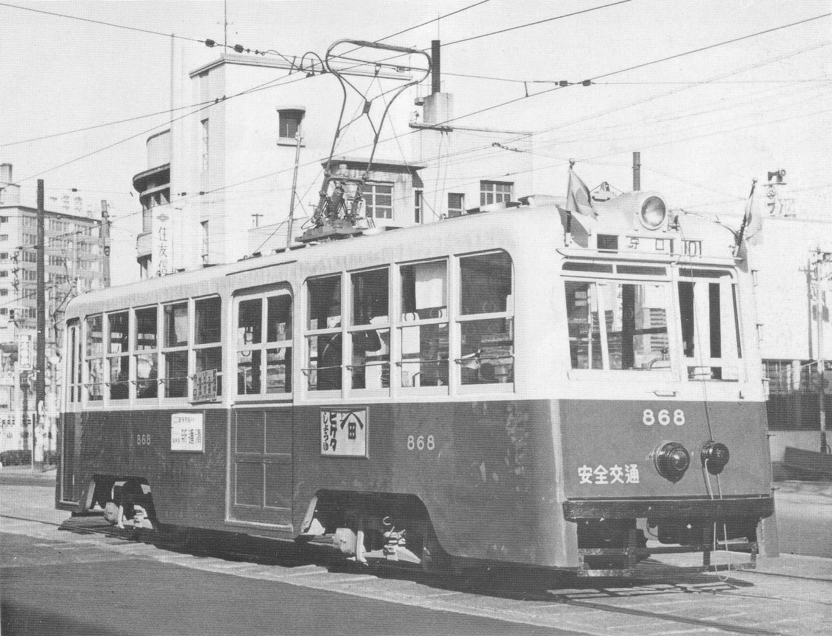 Osaka City Tram 868.